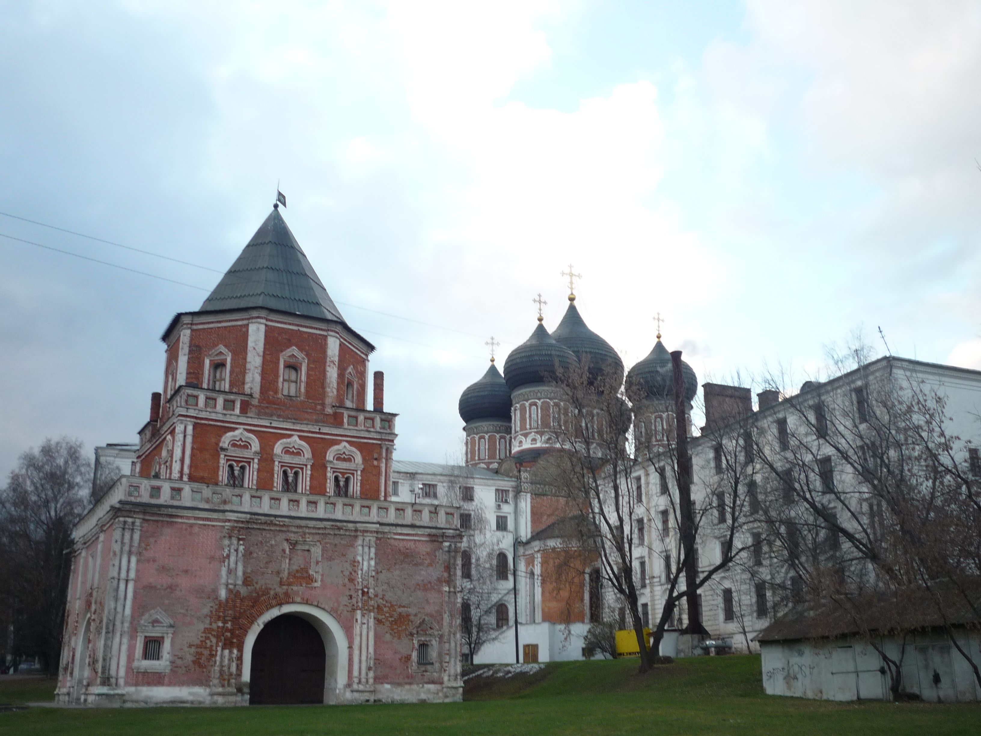 Измайловский остров.Мостовая башня и Покровский собор